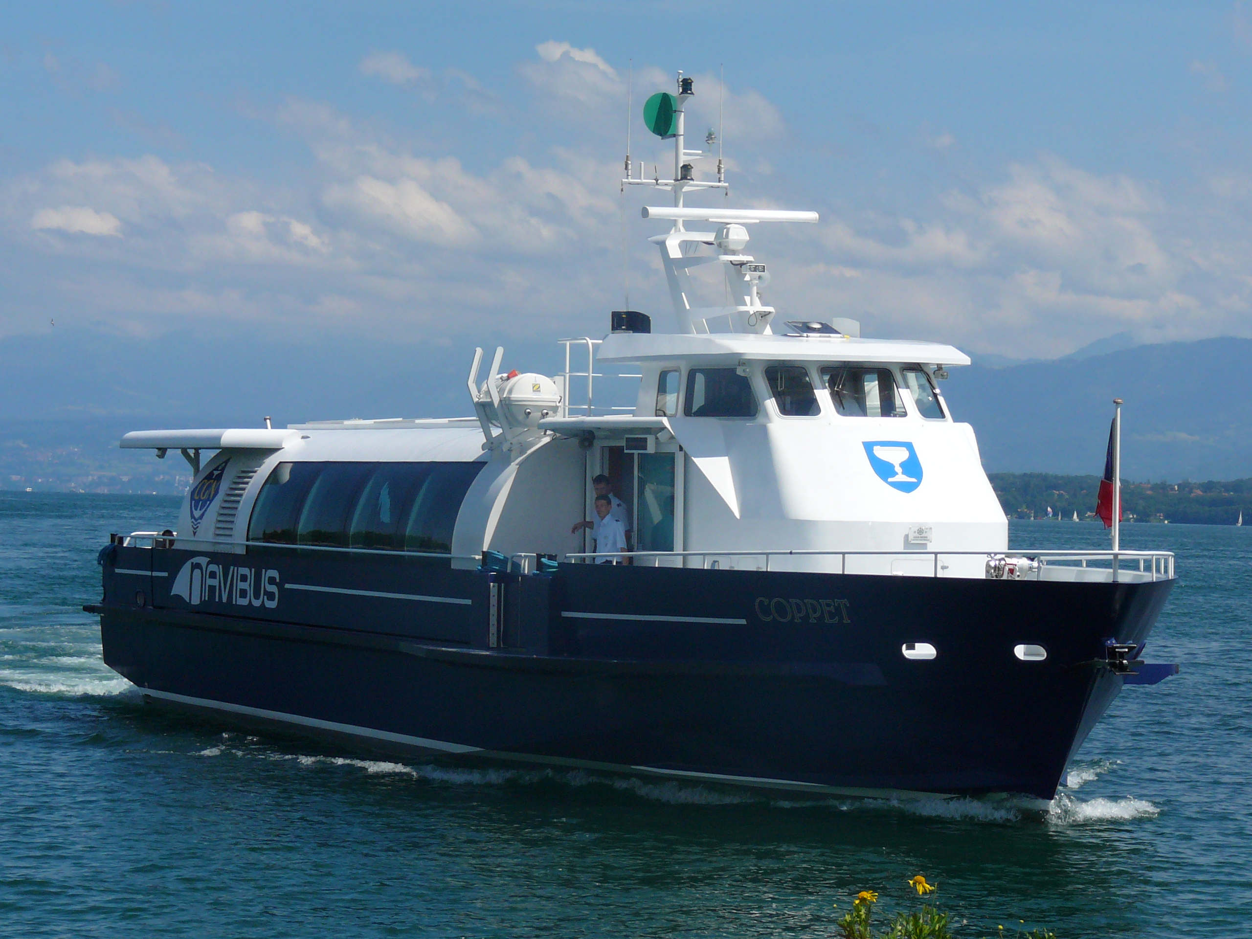 CGN Navibus boat